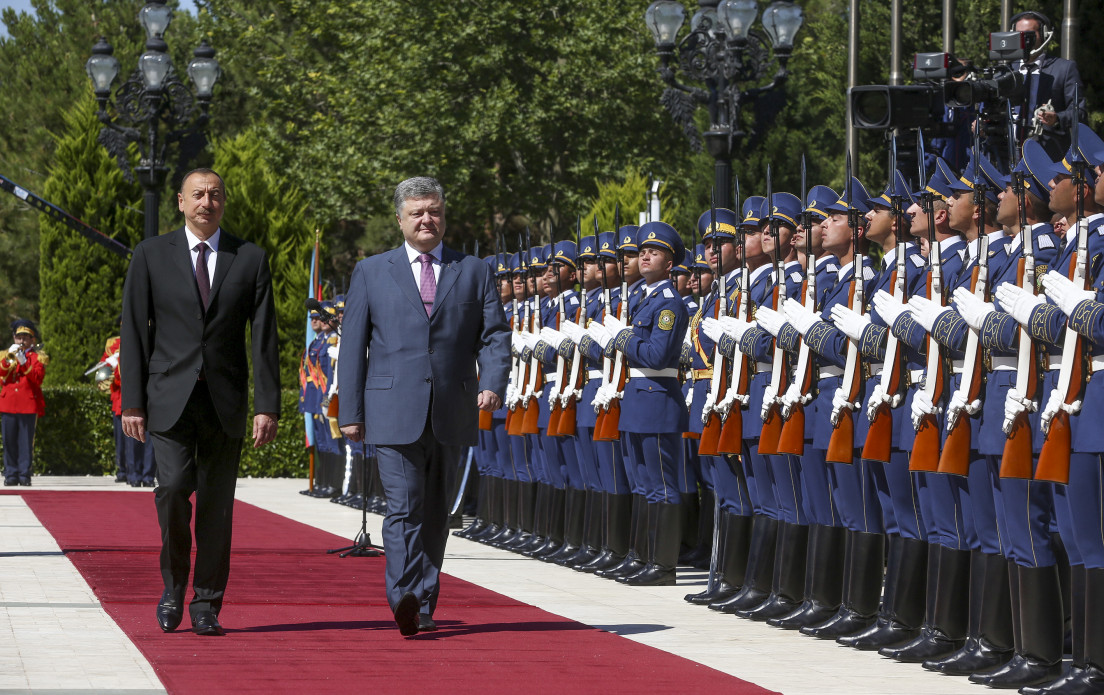 The official visit of Petro Poroshenko to Azerbaijan.